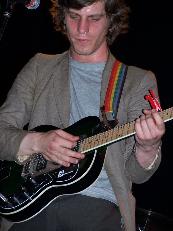 British guitarist Monster Bobby (Robert William Barry), performing as support to the Pipettes, live@Fillmore (Cortemaggiore, Italy), 29th April 2007 Depicted person: Monster Bobby – British singer